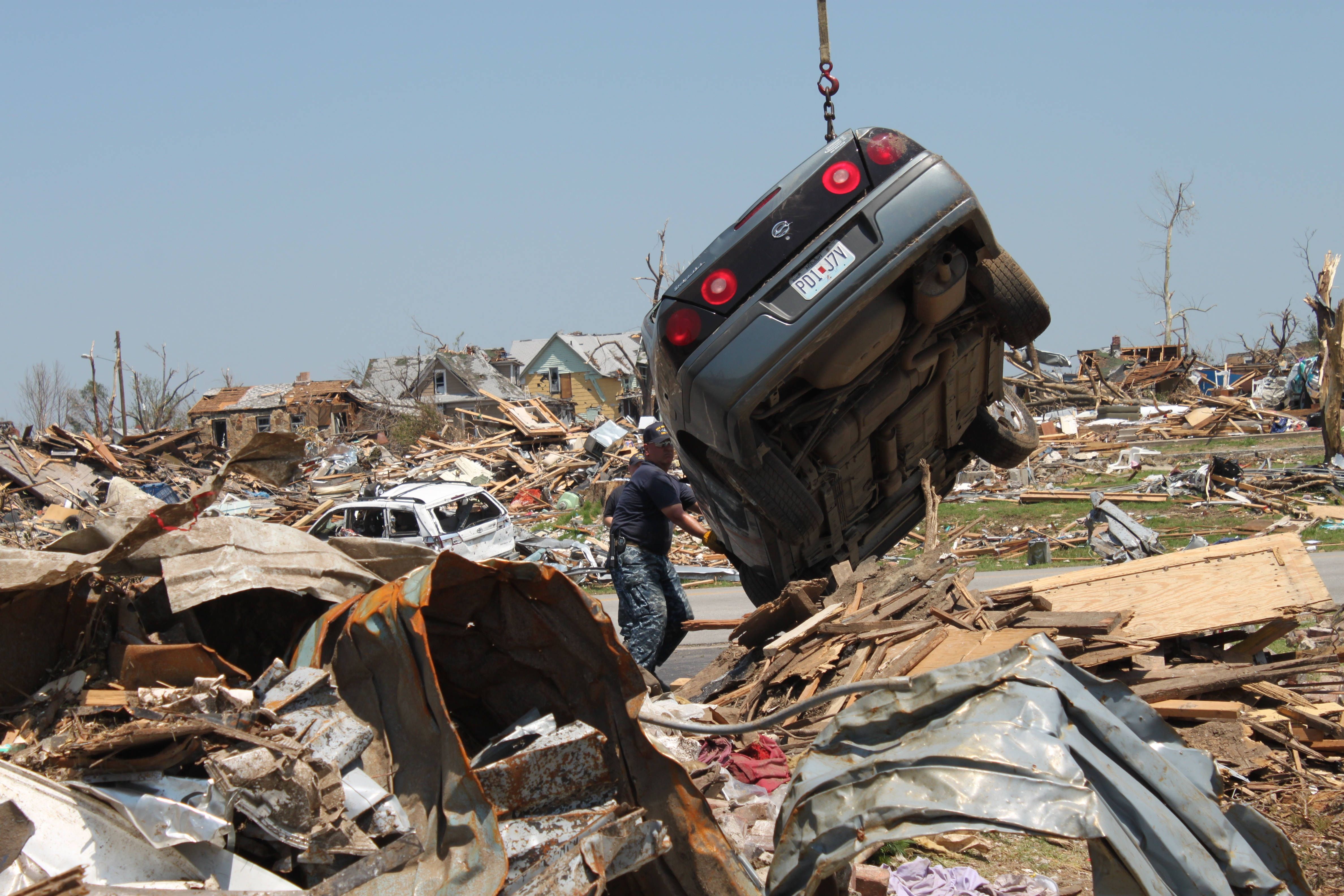 JOPLIN, Mo. (June 2, 2011) Chief Yeoman Mike Shea, assigned to the Virginia-class attack submarine USS Missouri (SSN 780), helps a crane operator move a wrecked vehicle during tornado clean-up efforts in Joplin, Mo. (U.S. Navy photo by Lt. j.g. Ryan Sullivan/Released)